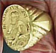 Ring of the pope